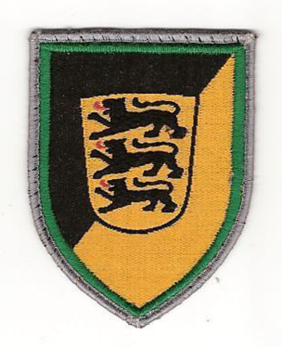 56th Home Defense Brigade